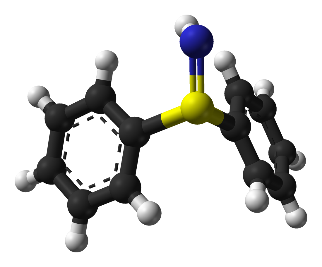 Ball-and-stick model of the diphenylsulfimide molecule, Ph2S=NH, from the crystal structure. X-ray crystallographic data from New J. Chem. (2002) 26, 202-206 Model constructed in CrystalMaker 8.1. Image generated in Accelrys DS Visualizer.